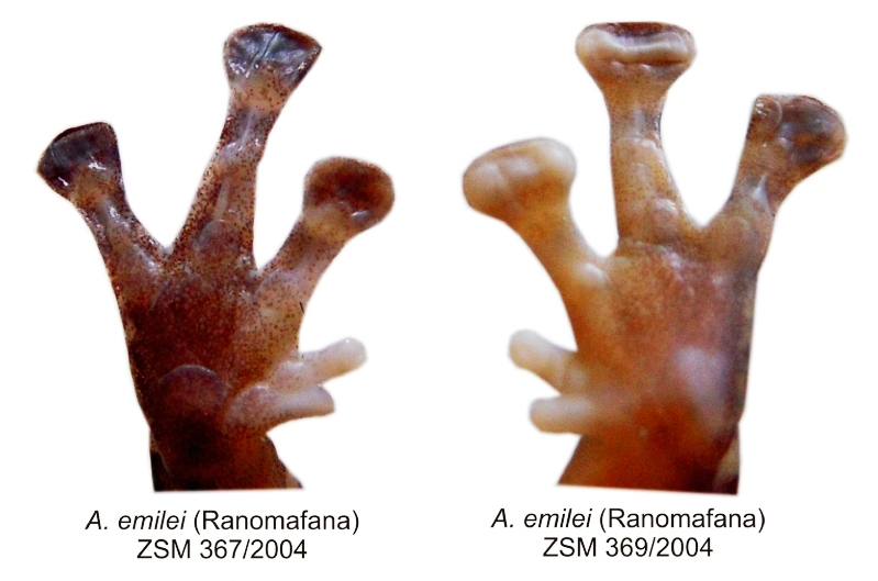 Views of palmar surfaces of males of Anodonthyla emilei frogs, showing relative size and degree of separation of first finger and prepollex.